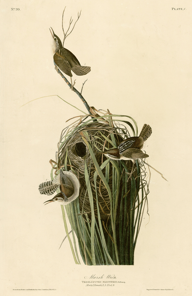 Plate 100 of Birds of America by John James Audubon depicting Marsh Wren.